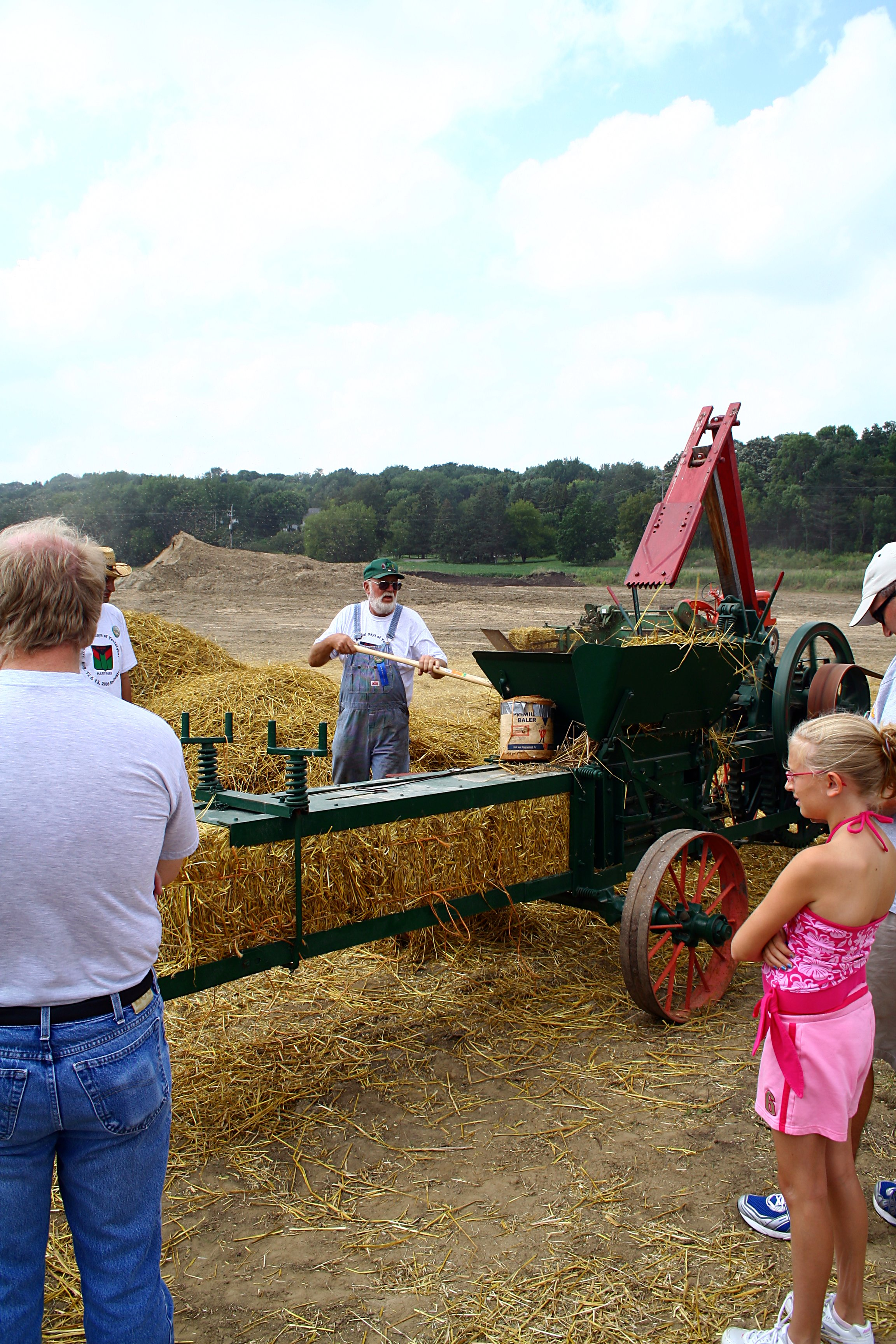 historic baler